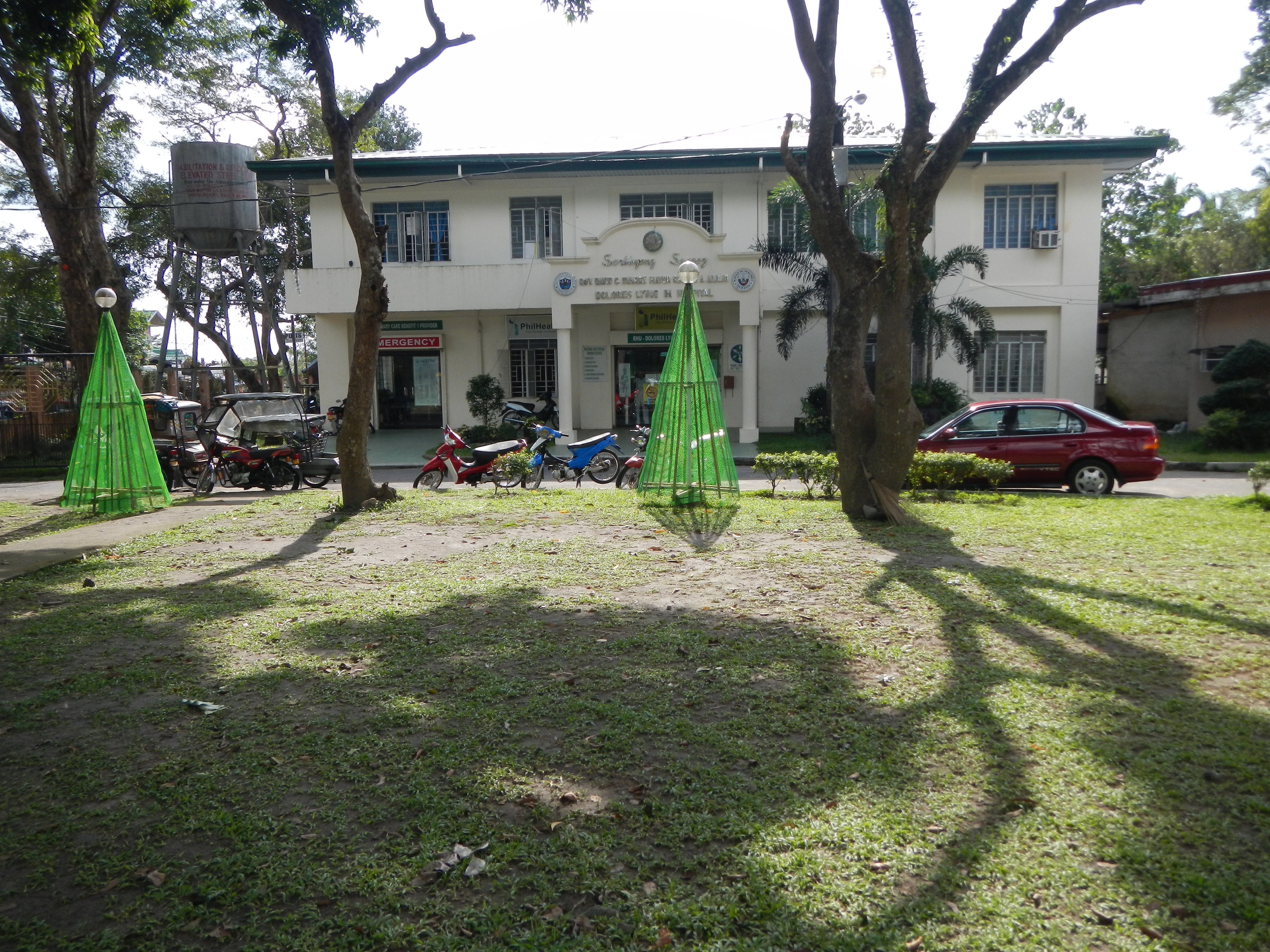 Upload Wizard photos of - the Dolores, Quezon [1] (a fifth class municipality in the province of Quezon, Philippines, politically subdivided into 16 barangays): before and after the Dolores Bridge - Dolores Municipal Hall Compound or Complex (which includes the Veterans Federation of the Philippines Monument, Marker and Marble Memorial, in front of the Welcome Arch of Dolores Municipality, the National gas station and waiting shed, centro, downtown, junction, TODA or tricycle stop, beside the Town Plaza, Park, Jose Rizal Monument, Sangguniang Bayan or Legislative Building inside the Municipal Training & Development Center, the Municipal Covered Court and the "Governor David C. Suarez Mayor Renato A. Alilio Dolores Lying In Hospital" stands including its RHU, Lying In Clinic and PhilHealth, among others).